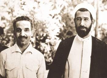 Depicted people: Mohammad-Ali Rajai and Mohammad-Javad Bahonar